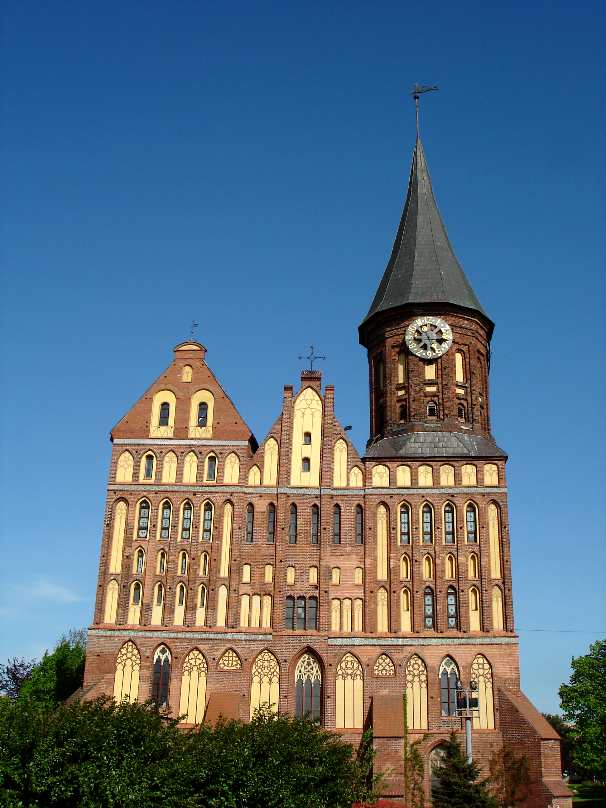 Russian Federation: Königsberg Cathedral in Kaliningrad